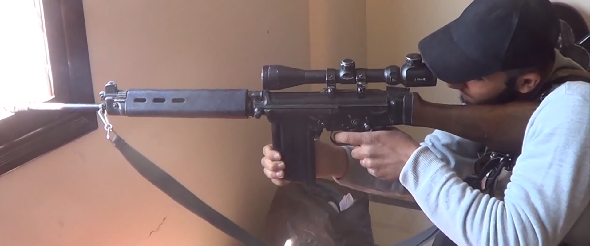 A fighter of the Siddiq Battalions fire a scoped FN FAL at Syrian government forces in the town of Otaybah, eastern Ghouta.